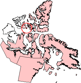 Base image created by Keith Edkins as GFDL, modified by Tim Vasquez.